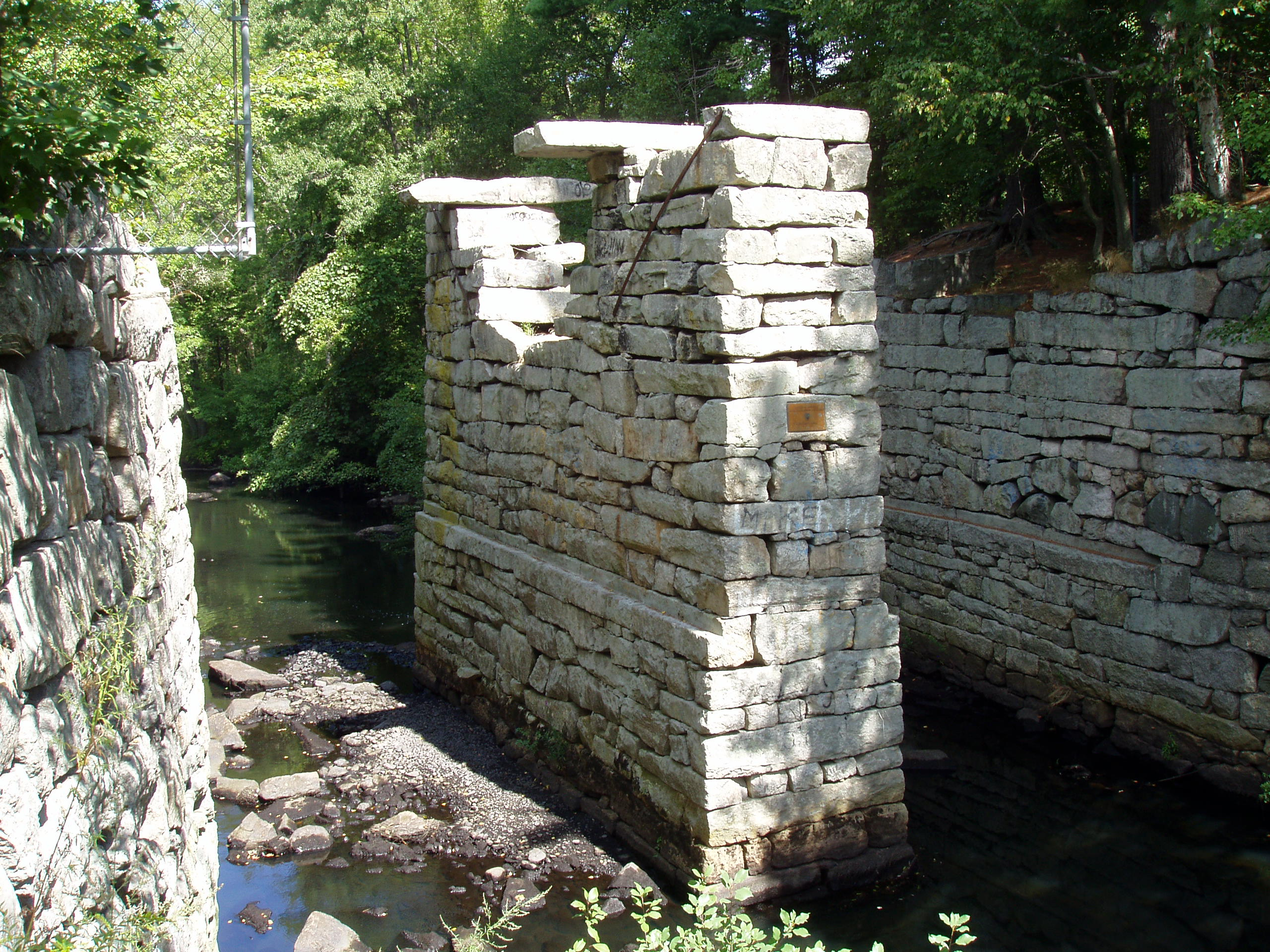 Remnants of the Shawsheen River Aqueduct, Middlesex Canal, Wilmington, Massachusetts. Photograph taken by Daderot, September 2005.